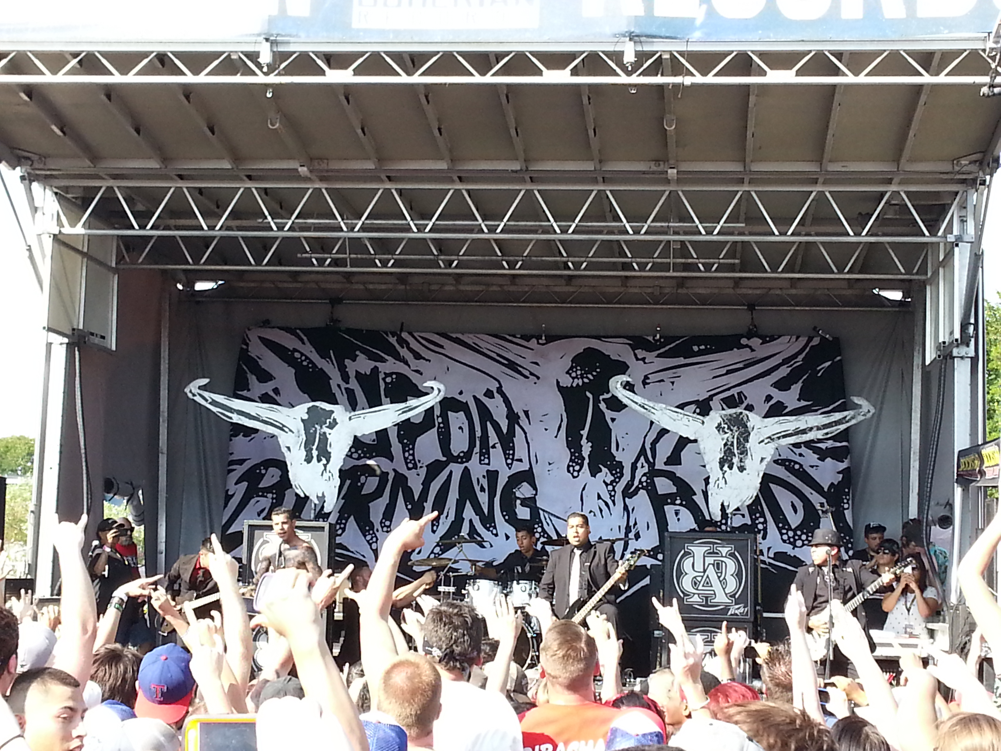 Upon a Burning Body performing at Mayhemfest 2014